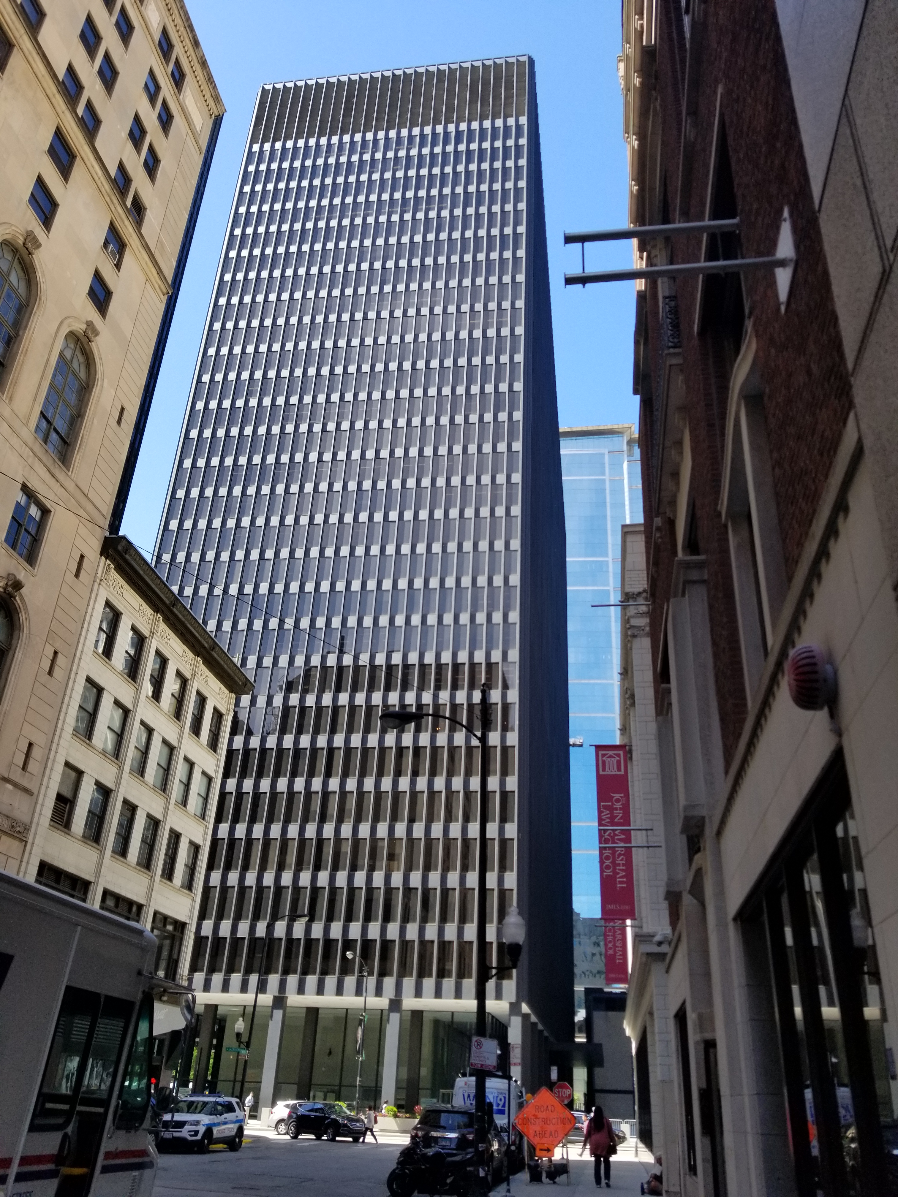 Federal Center complex in Chicago